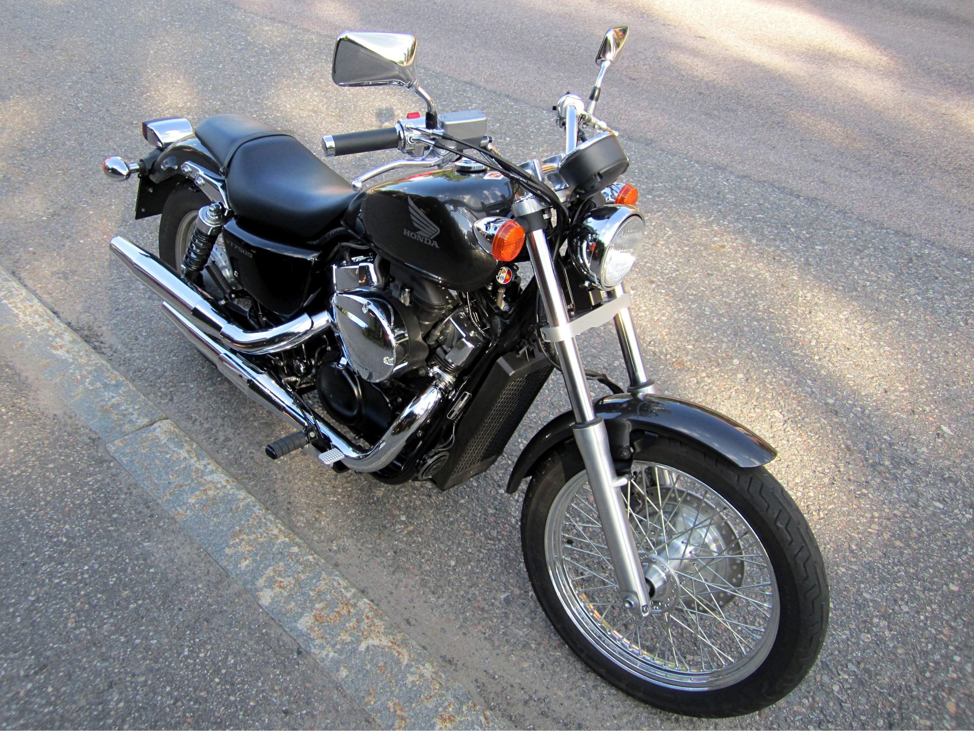 Honda's custom motorcycle VT750S, 750cc, year 2011.